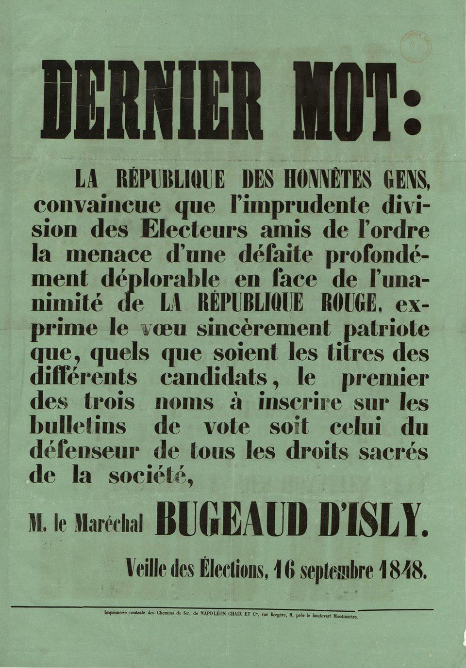 French political poster for the election of Maréchal Bugeaud